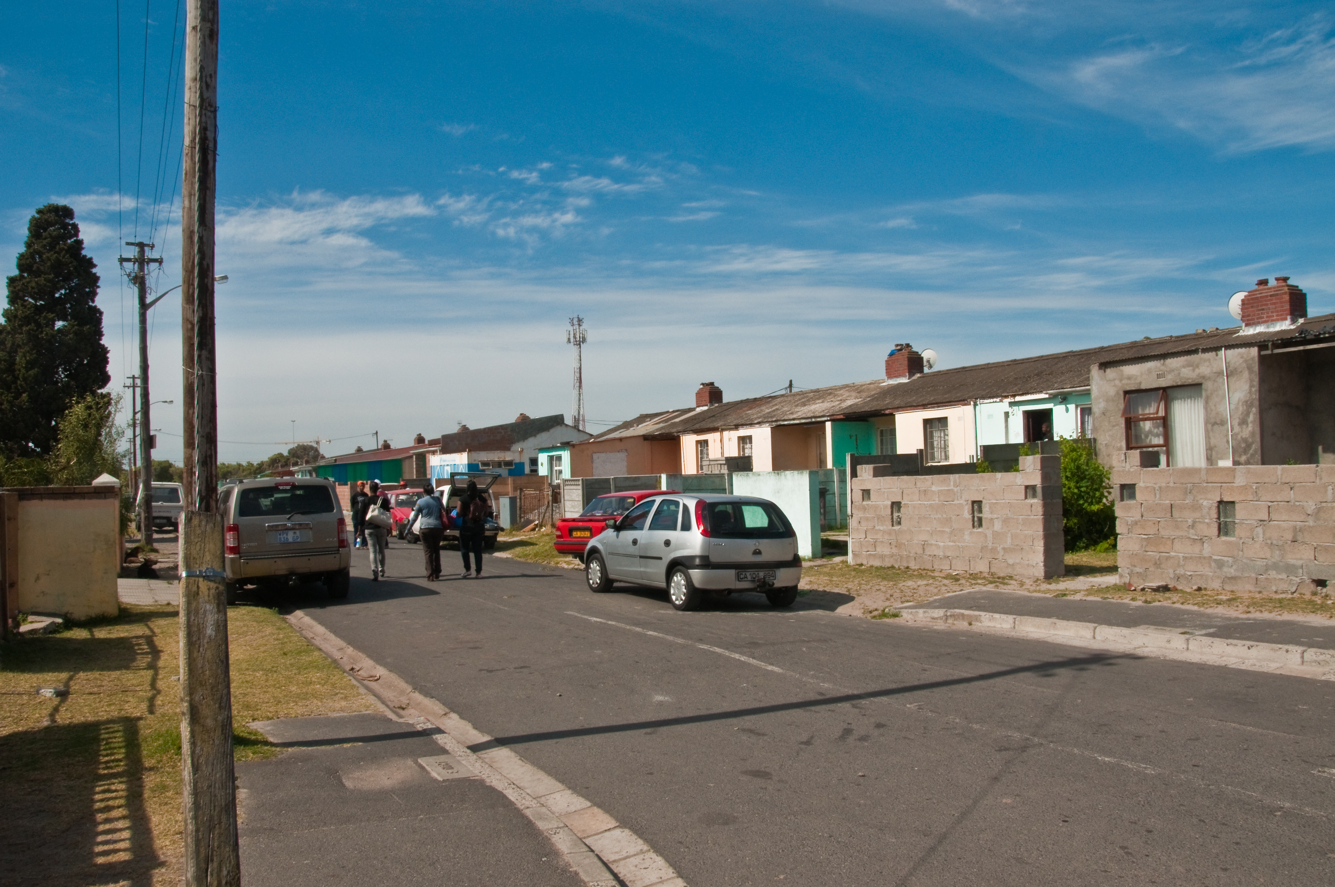 2009-November-30-Cape Town - Langa Township